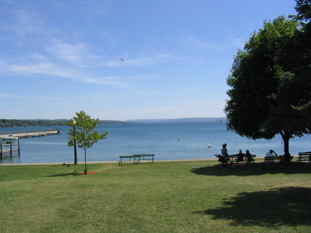 photo of Skaneateles Lake from the Village of Skaneateles, taken by me on July 25, 2005